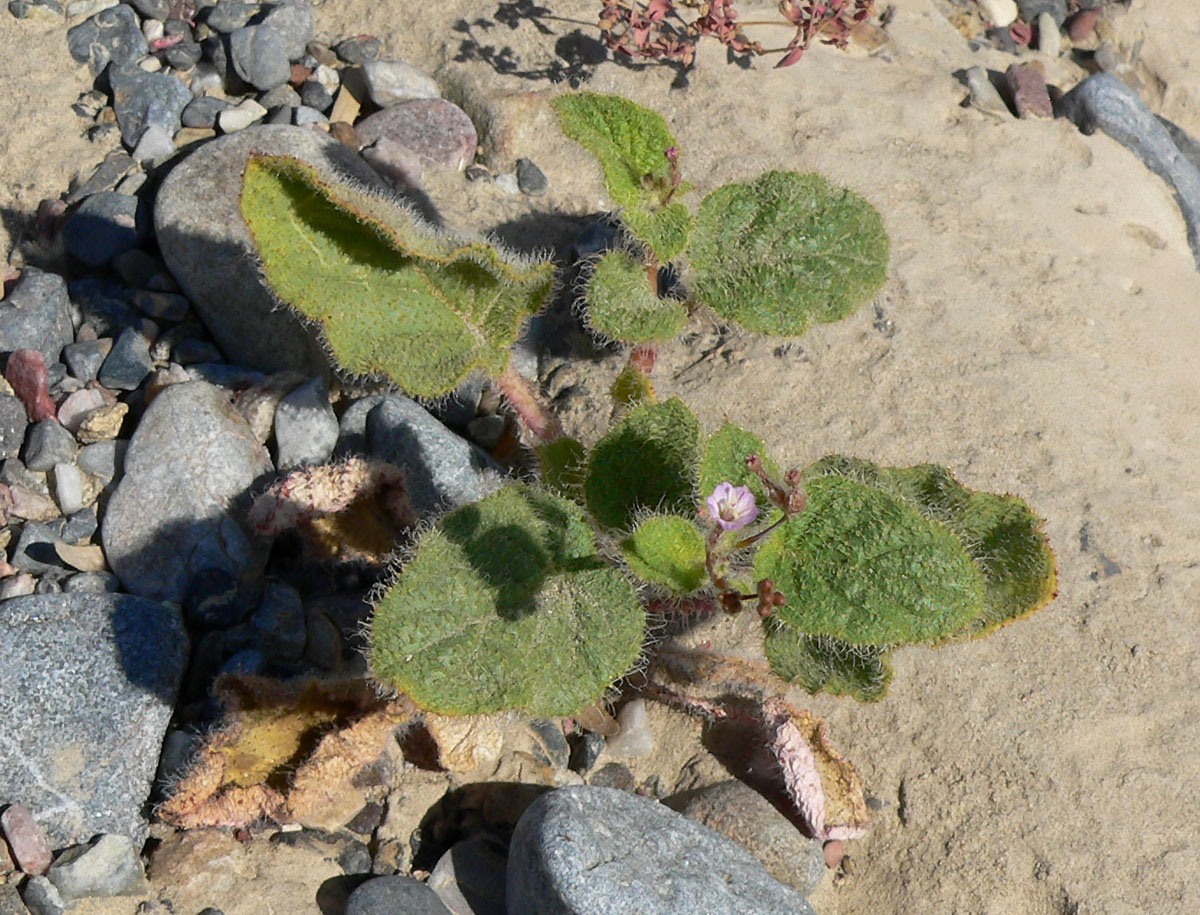 Anulocaulis annulatus in Furnace Creek Wash, Death Valley, California